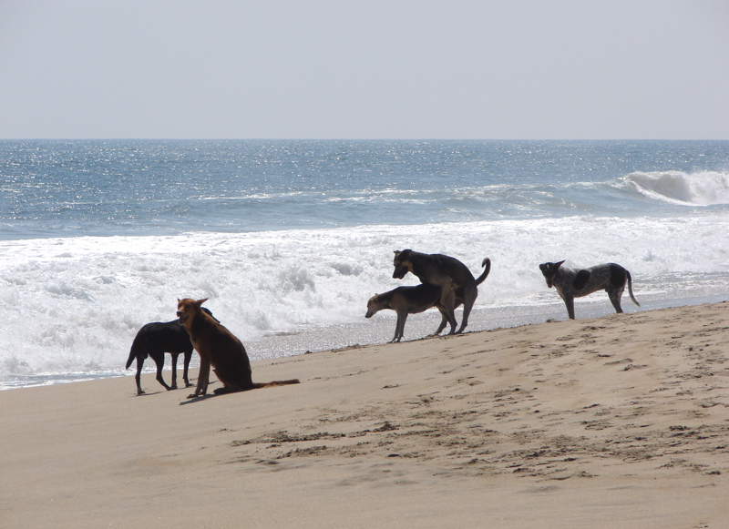 cc-by-sa-2.0